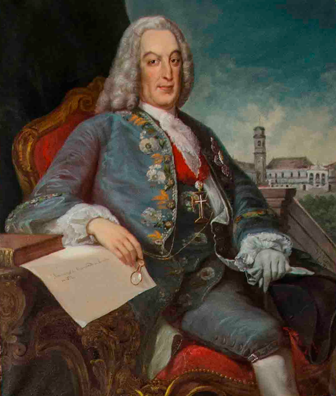 Portrait of the Marquess of Pombal; in the background, the University of Coimbra.